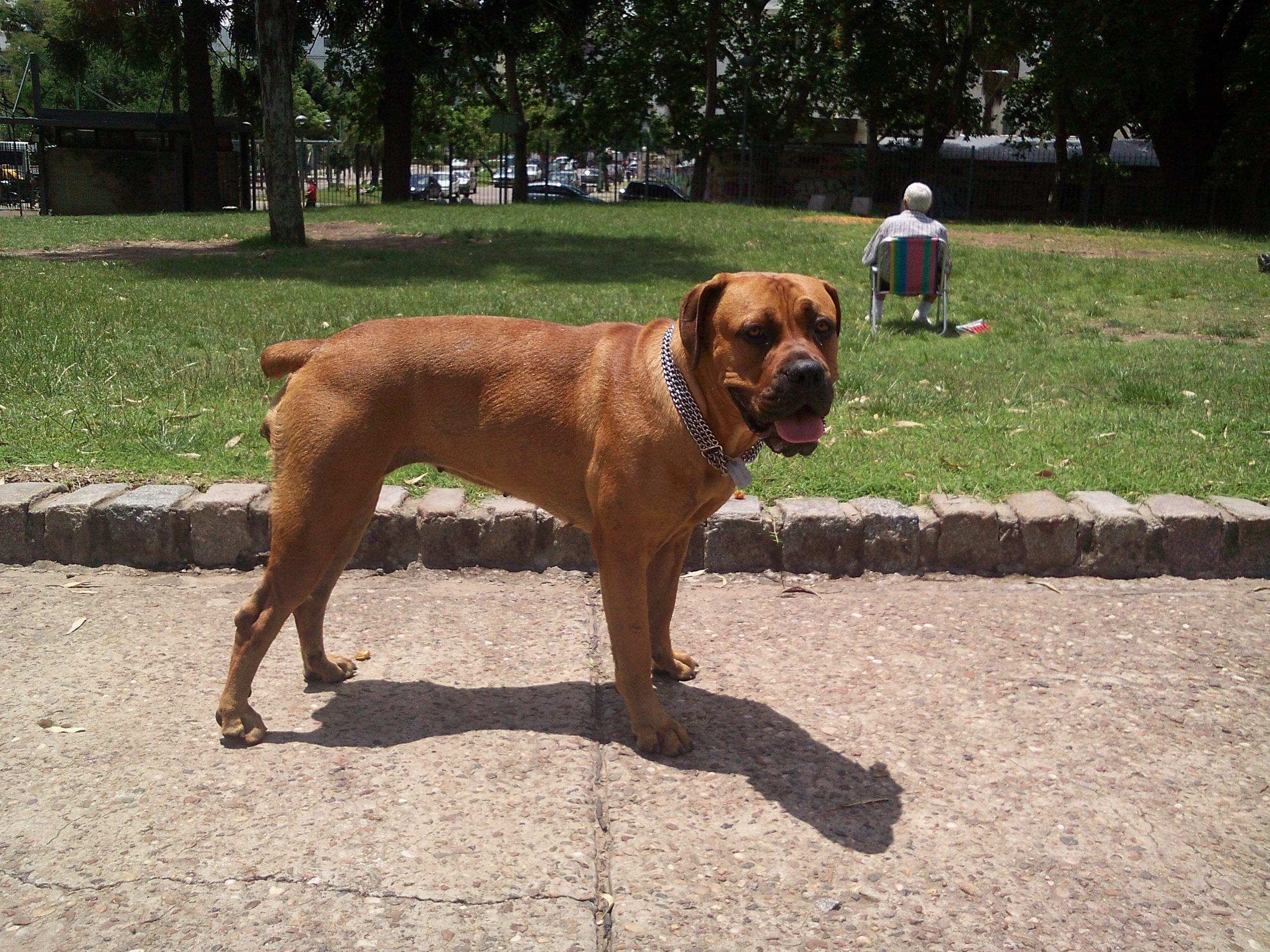 Boerboel